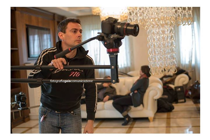 Paolo Mantero on the set of the music video "Solo Sesso"